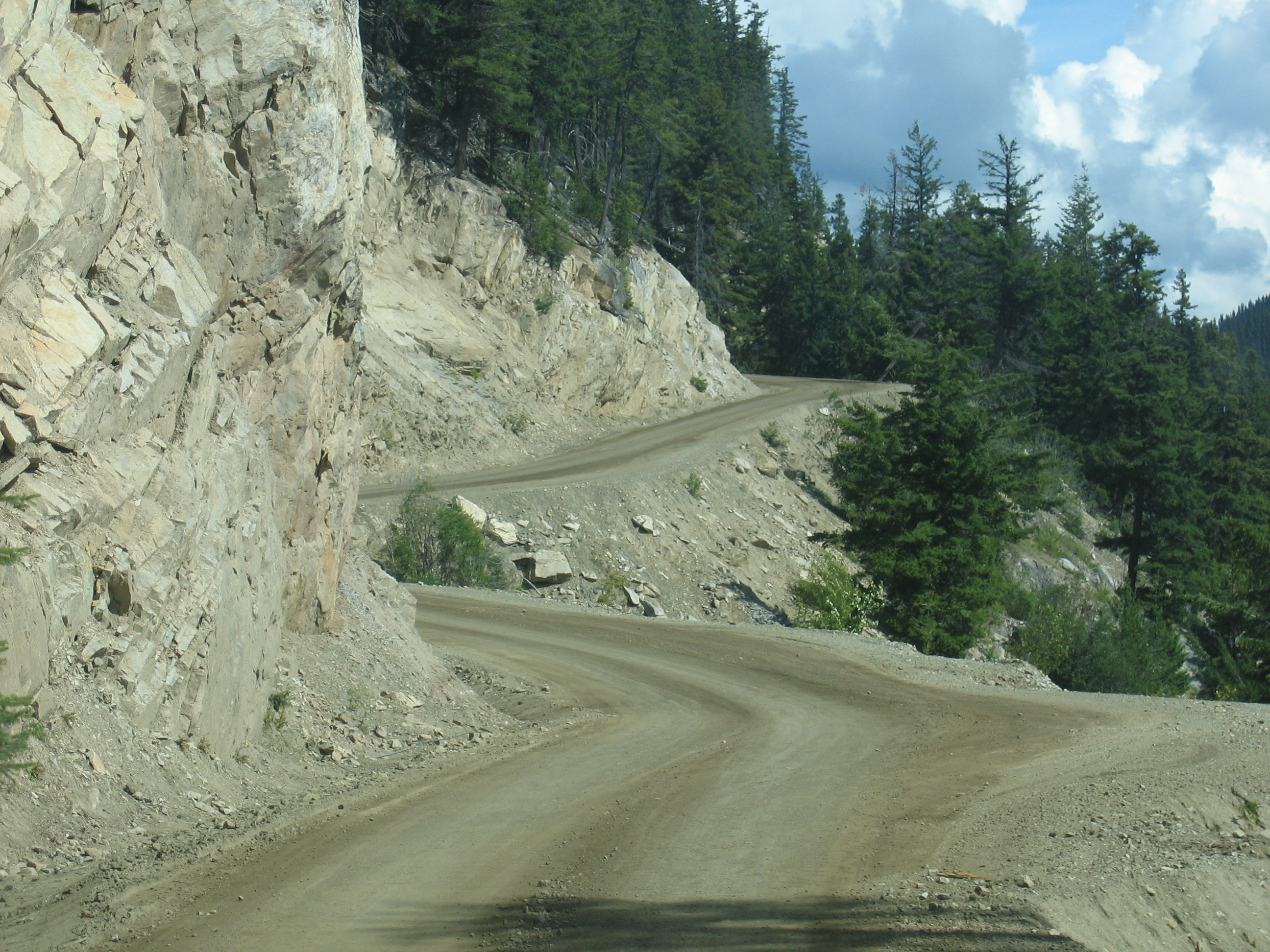 British Columbia Highway 20, Chilcotin Highway, Heckman pass